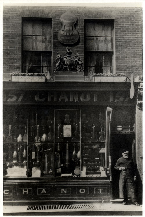 Photograph of Georges Chanot III (1830-1895 outside his shop in Wardour Street in Soho in London